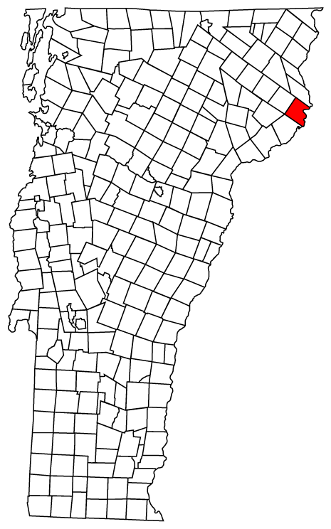 Description: Map of Vermont towns with Guildhall highlighted Source: Map created by Jared C. Benedict on 26 March 2004. Copyright: © Jared C. Benedict.